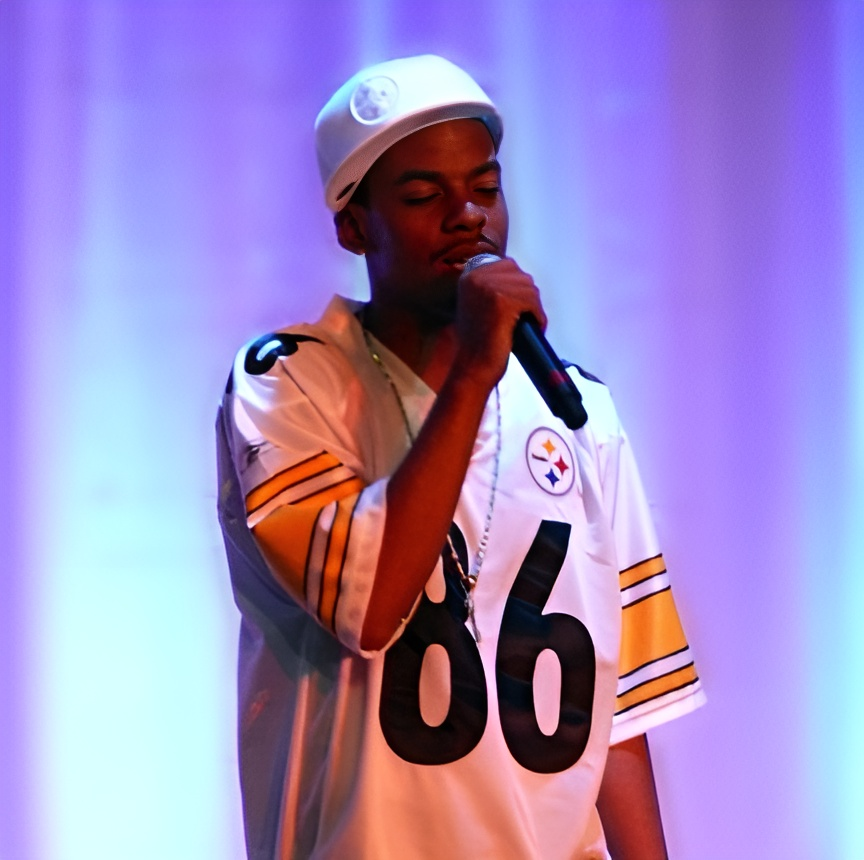 A quick shot Tim took (and I badly cleaned up) of Jero rehearsing on Wednesday before his concert at Pitt. A quick shot Tim took (and I badly cleaned up) of Jero rehearsing on Wednesday before his concert at Pitt. If you want to see the professional photo of the concert itself, check out this article: ジェロさん、母校でコンサート 米国出身の黒人演歌歌手 or you can watch WTAE Pittsburgh's coverage of the event here, or see Jero's blog entry about it here.